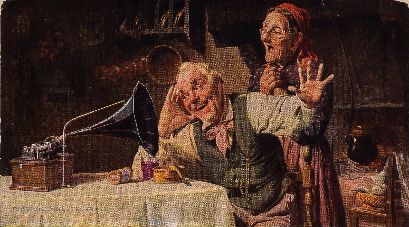 "The Edison Phonograph". 1905 promotional postcard. Artwork show an old man and old woman with delighted expressions as they listen to a cylinder phonograph on their kitchen table.